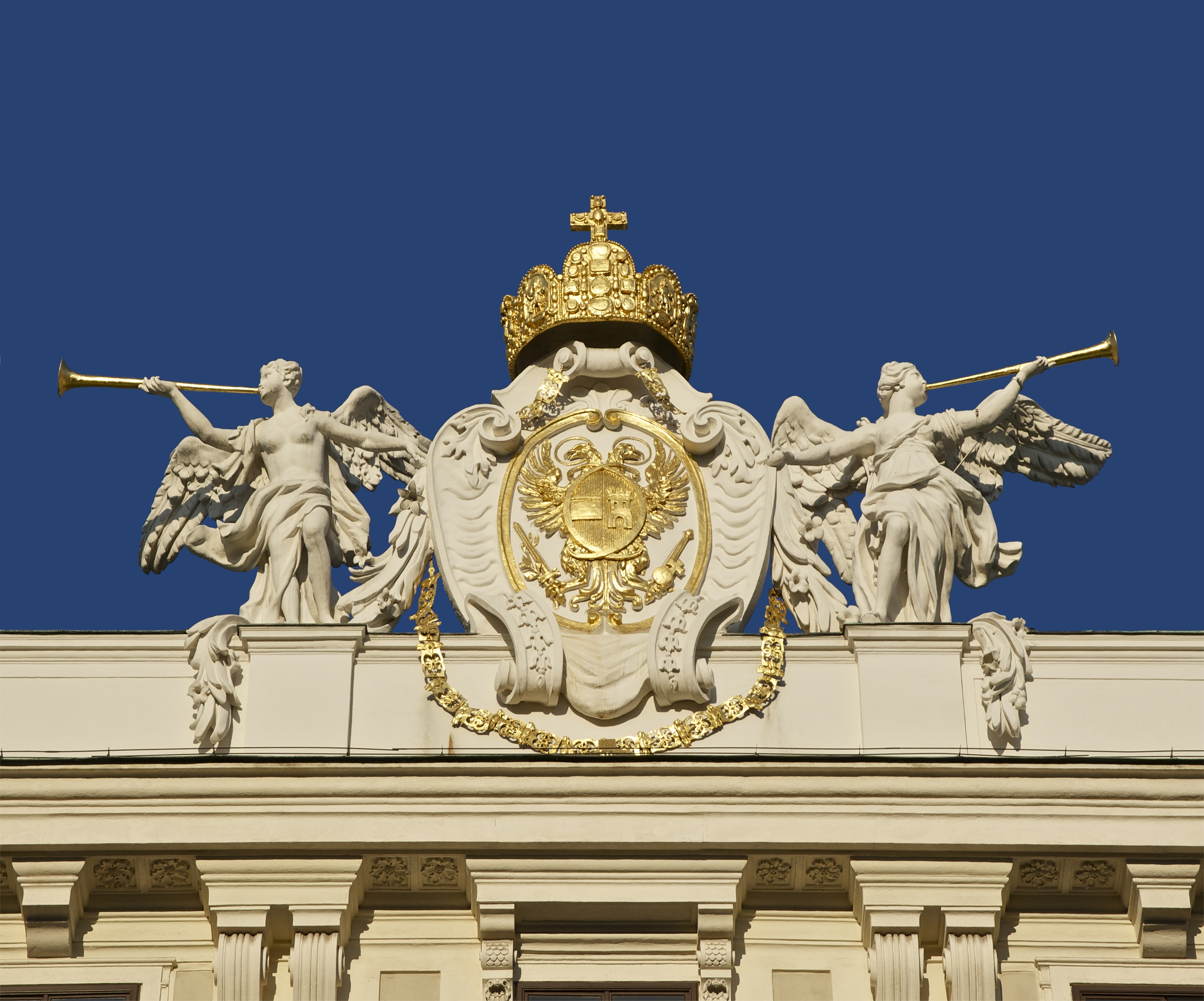 CoA of Emperor Charles VI of Habsburg, Hofburg Palace, Burghof, Vienna, Austria.